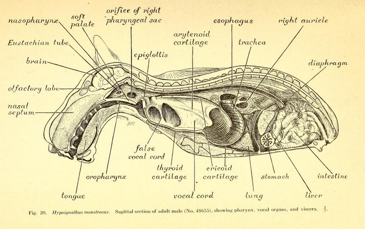 Side cross section of H. monstrosus